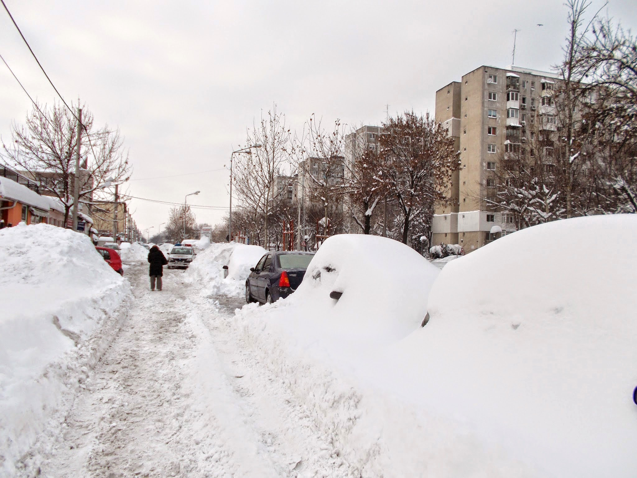 winter in Bucharest 2017